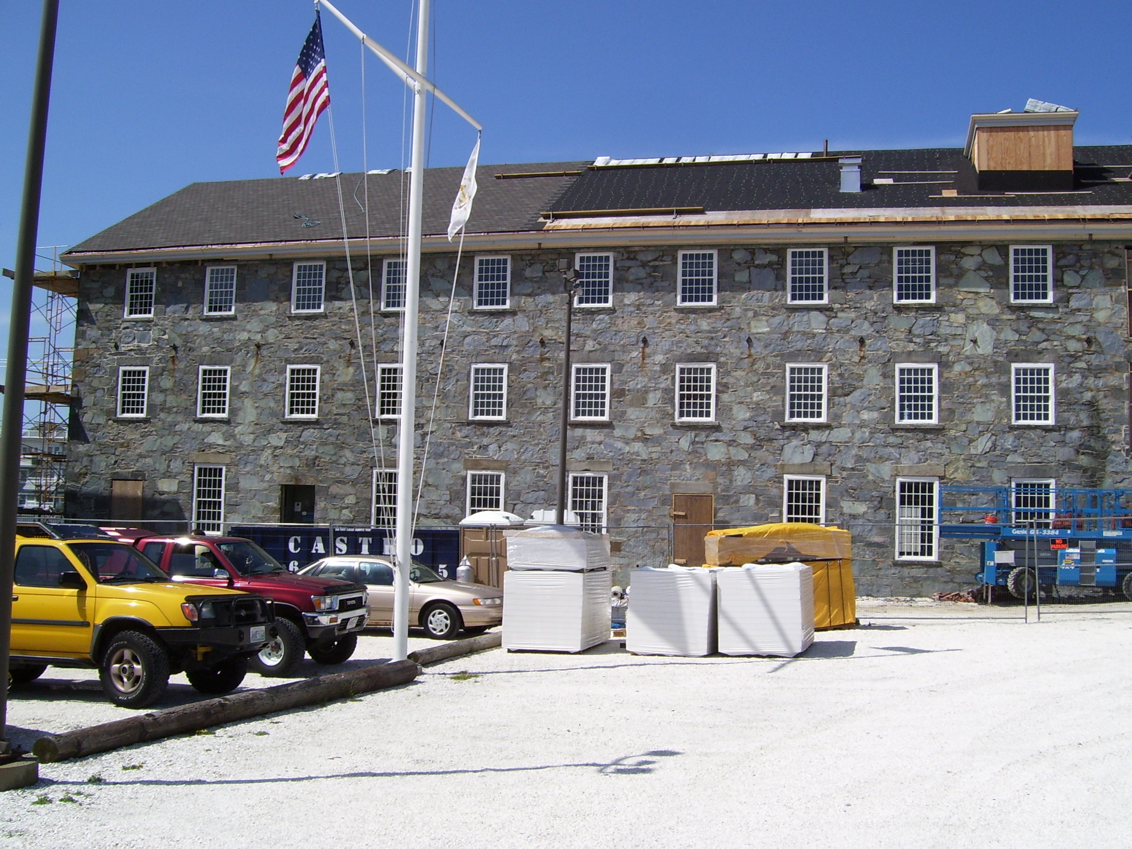 This is my 2008 photo of the Newport Steam Factory.